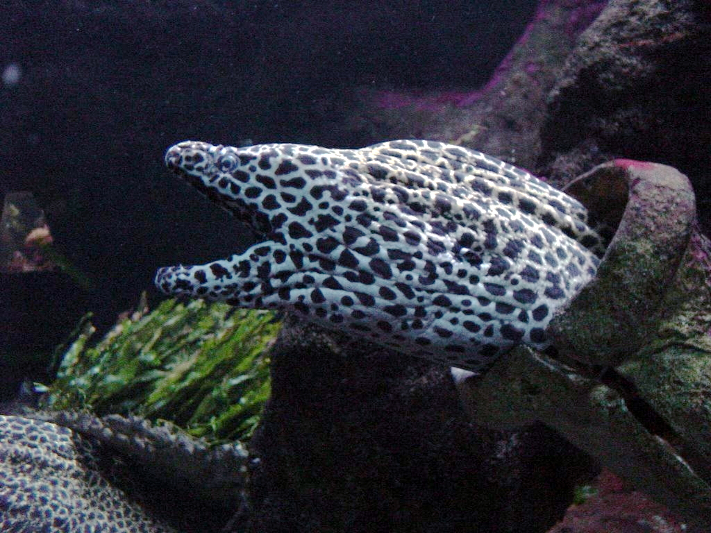 Spotted moray (Gymnothorax moringa)